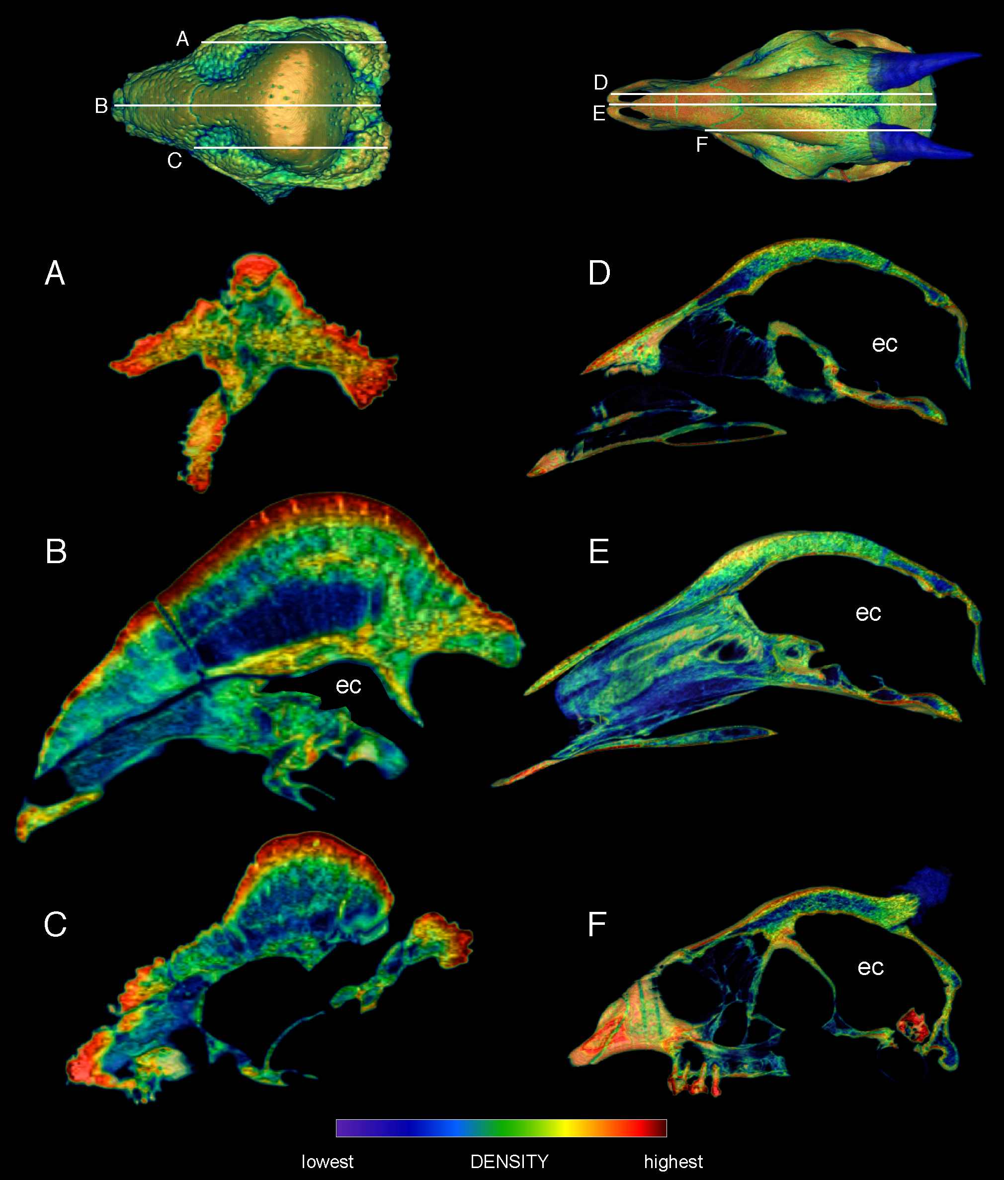 Comparison of sagittal-section densities in crania of Stegoceras validum (UA 2) and Cephalophus leucogaster (AMNH 52802). A, B, C. Sagittal sections through the cranium of Stegoceras validum, at positions shown in the dorsal view (top). D, E, F. Sections through the cranium of Cephalophus leucogaster, at positions shown in the dorsal inset (top). Note similar stratification of compact and cancellous layers in F, through the middle of the duiker's lobate dome, and B, through the center of the pachycephalosaur's dome. ec = endocranial cavity.